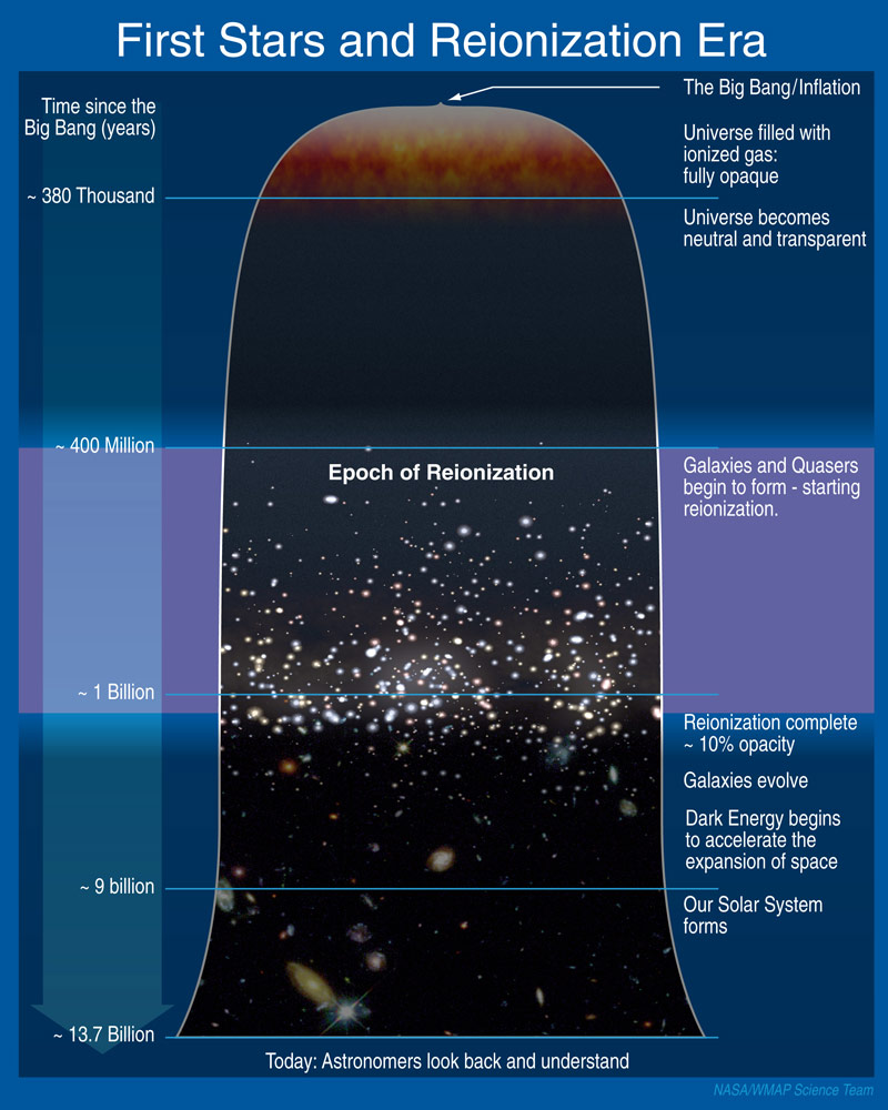 This is a timeline of the universe, created at Caltech, but linked on NASA's website ( as part of the James Webb Space Telescope exhibit, uploaded for inclusion in the article on reionization.